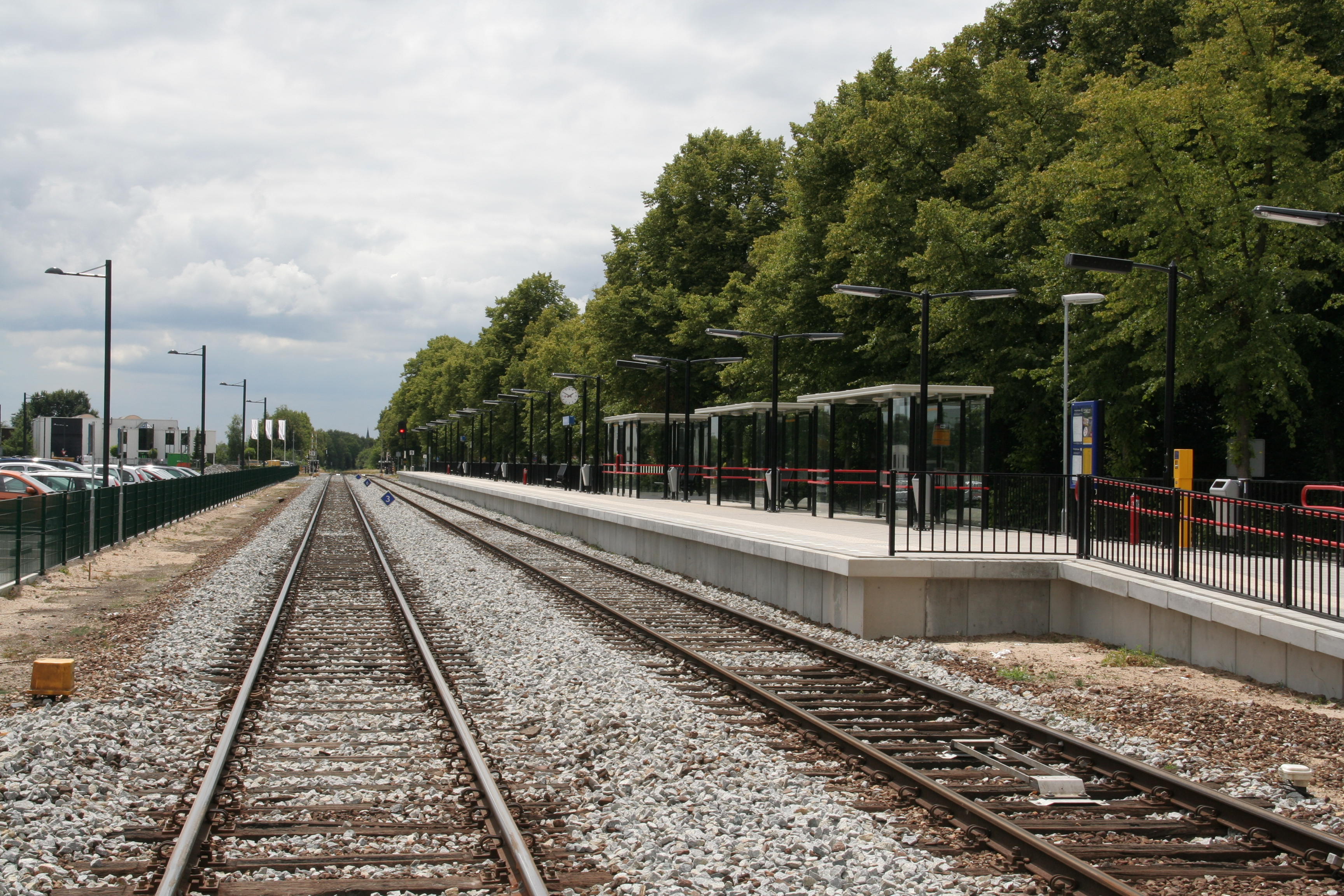 Station Mook-Molenhoek